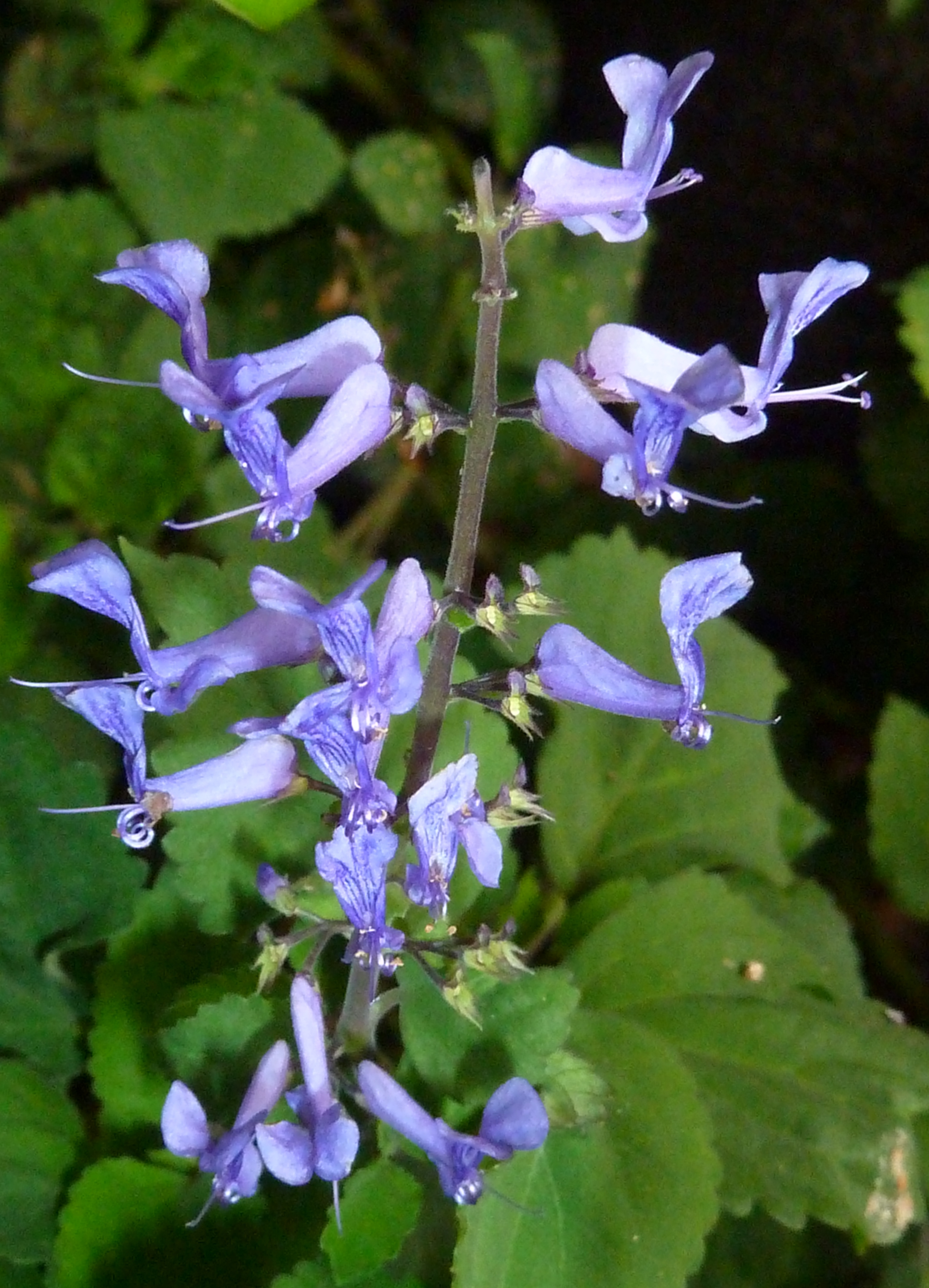 Zulu spur-flower in the Manie van der Schijff Botanical Garden, Pretoria